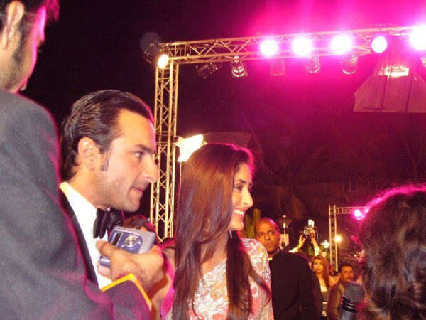 Indian actor Saif Ali Khan with wife Kareena Kapoor at the 53rd Filmfare Awards ceremony